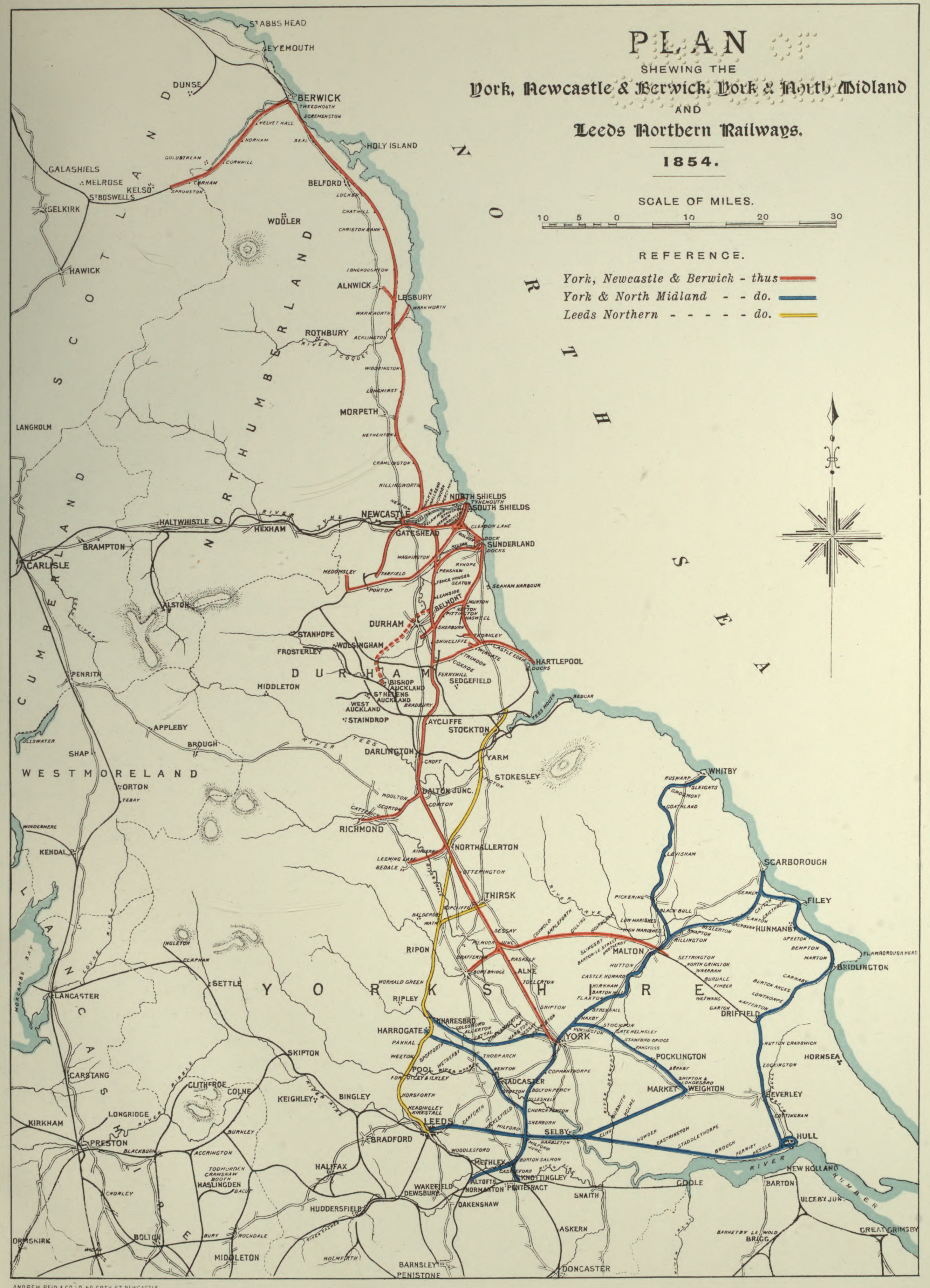 Map of the York, Newcastle & Berwick, York & North Midland, Leeds Northern Railways, which merged in 1854 to become the North Eastern Railway (UK) Block capitals bottom left: Andrew Reid & Co ?? 60 Grey Street, Newcastle